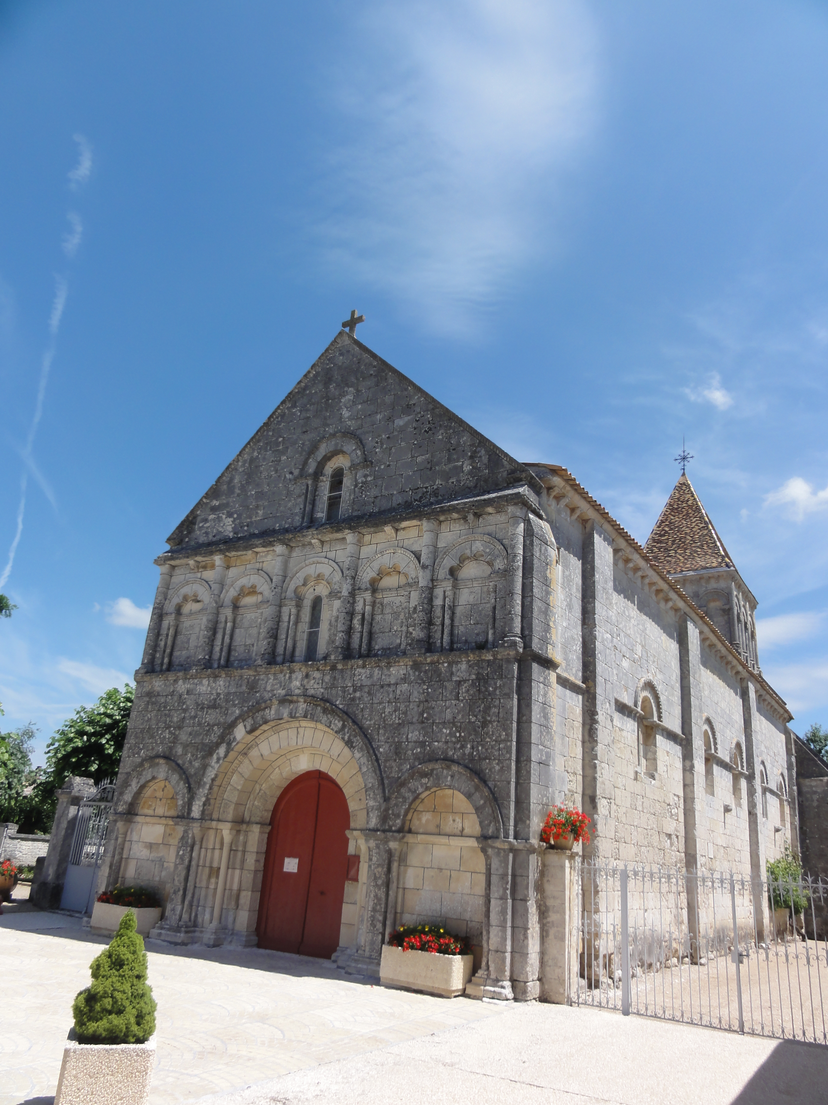 Plassac (Charente-Maritime) Église Saint-Laurent